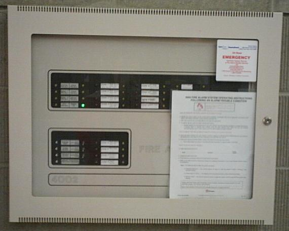 A Simplex 4002 conventional FACP.